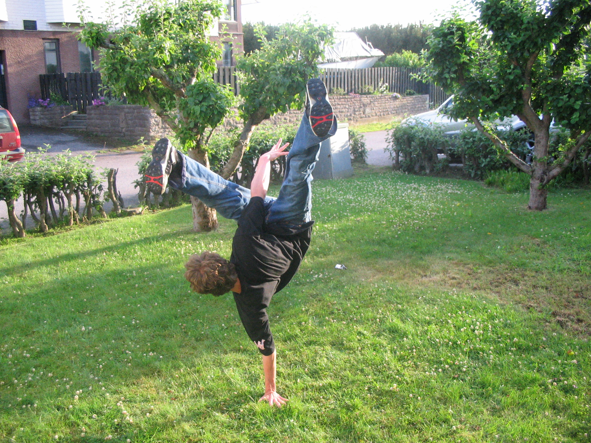 a v-kick freeze in breakdance